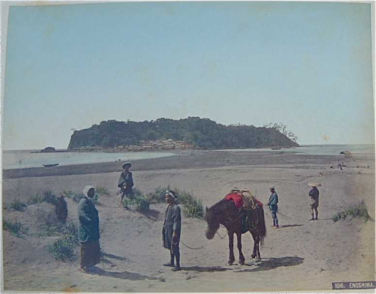 Hand colored albumen print by Kusakabe Kimbei